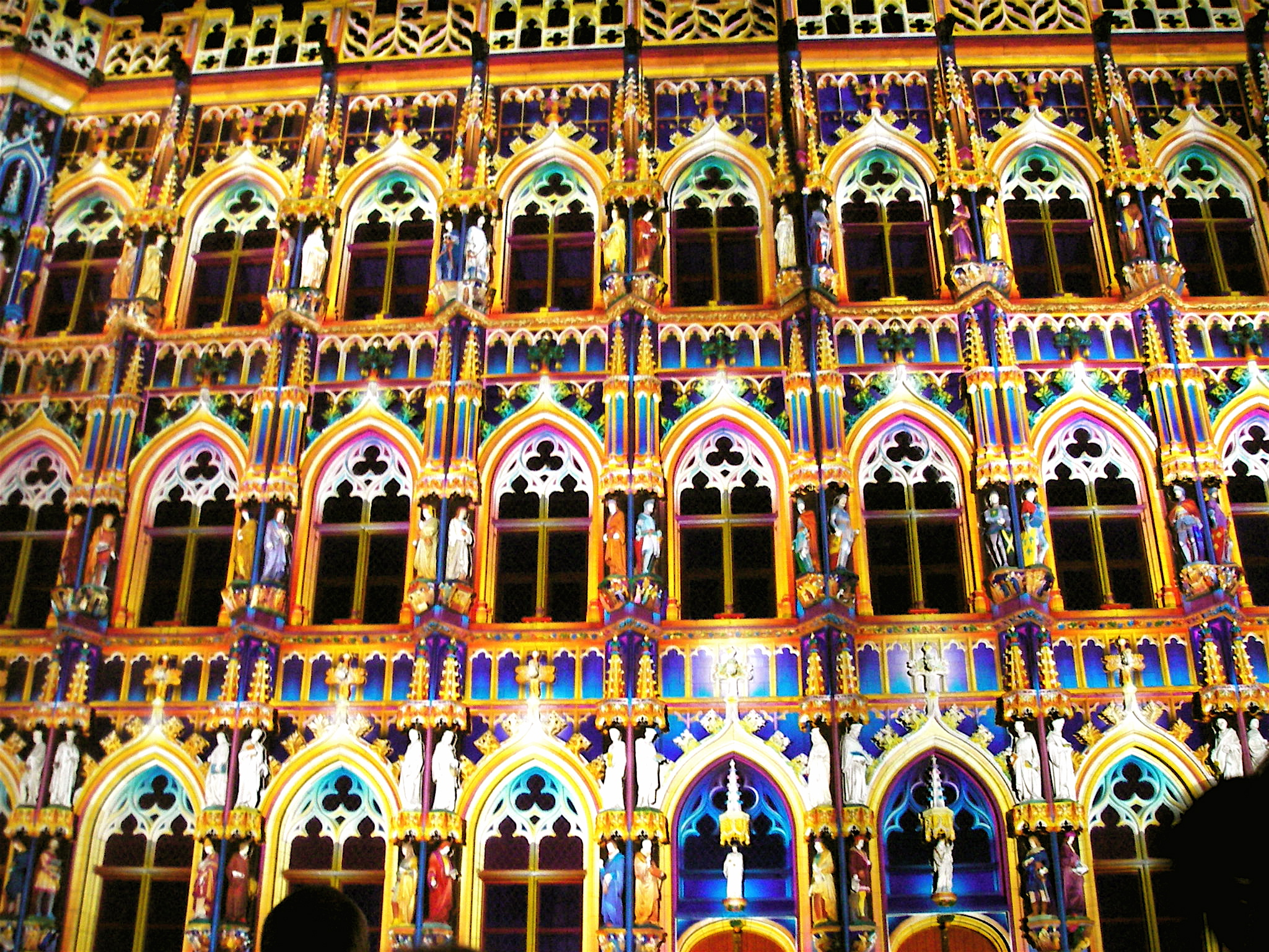 City Hall Leuven coloured with laserlights